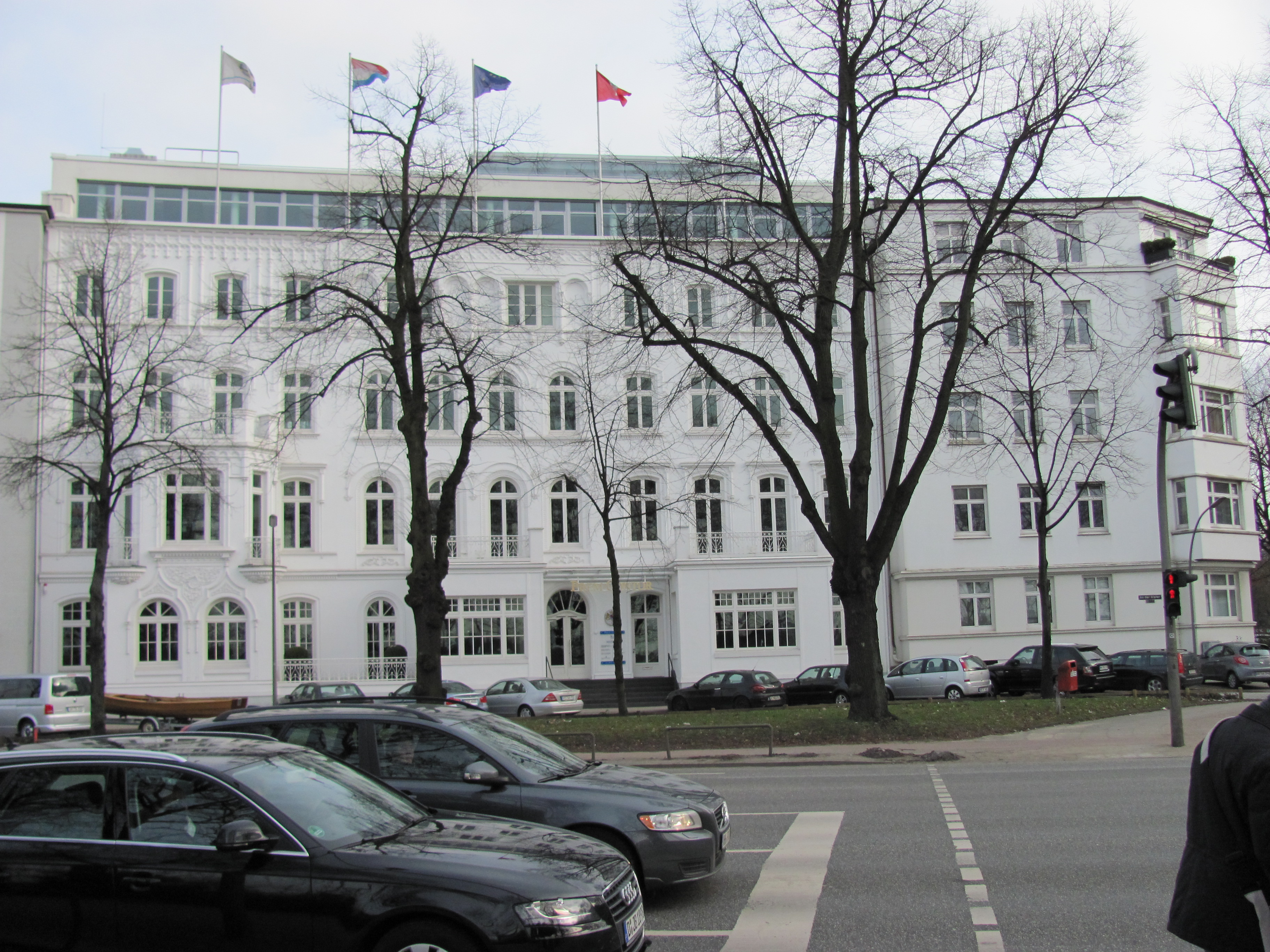 Building An der Alster 9, Hamburg, honorary consulate of Luxembourg